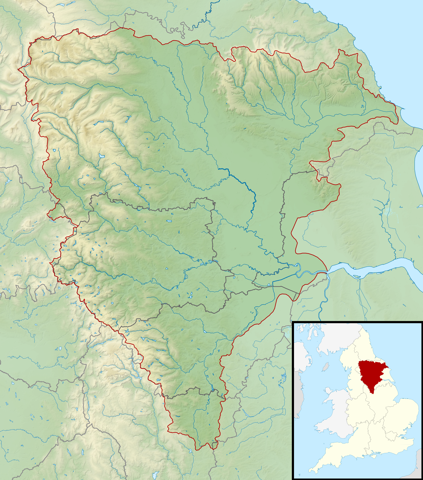 Map of the River Ouse and its catchment in England. Map is on British National Grid with limits at grid refs NY7020 (top left), OV2020 (top right), SJ7050 (bottom left), TF2050 (bottom right).